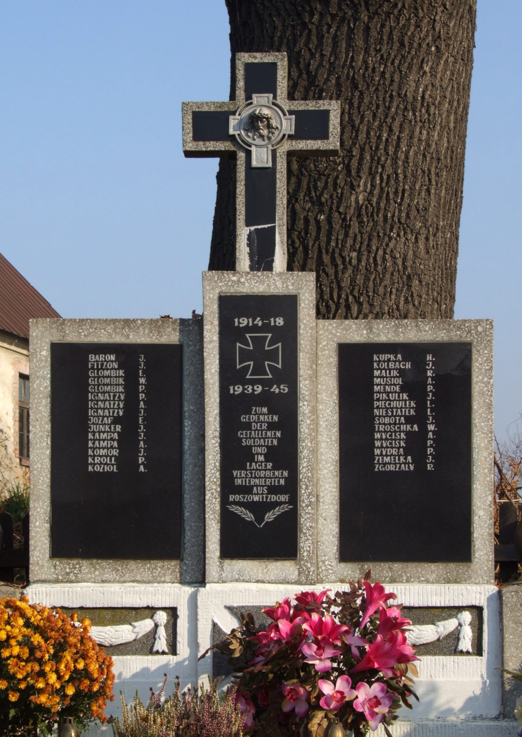 World War I and II memorial in Roszowice/Roschowitzdorf (1936-45 Gräfenstein)